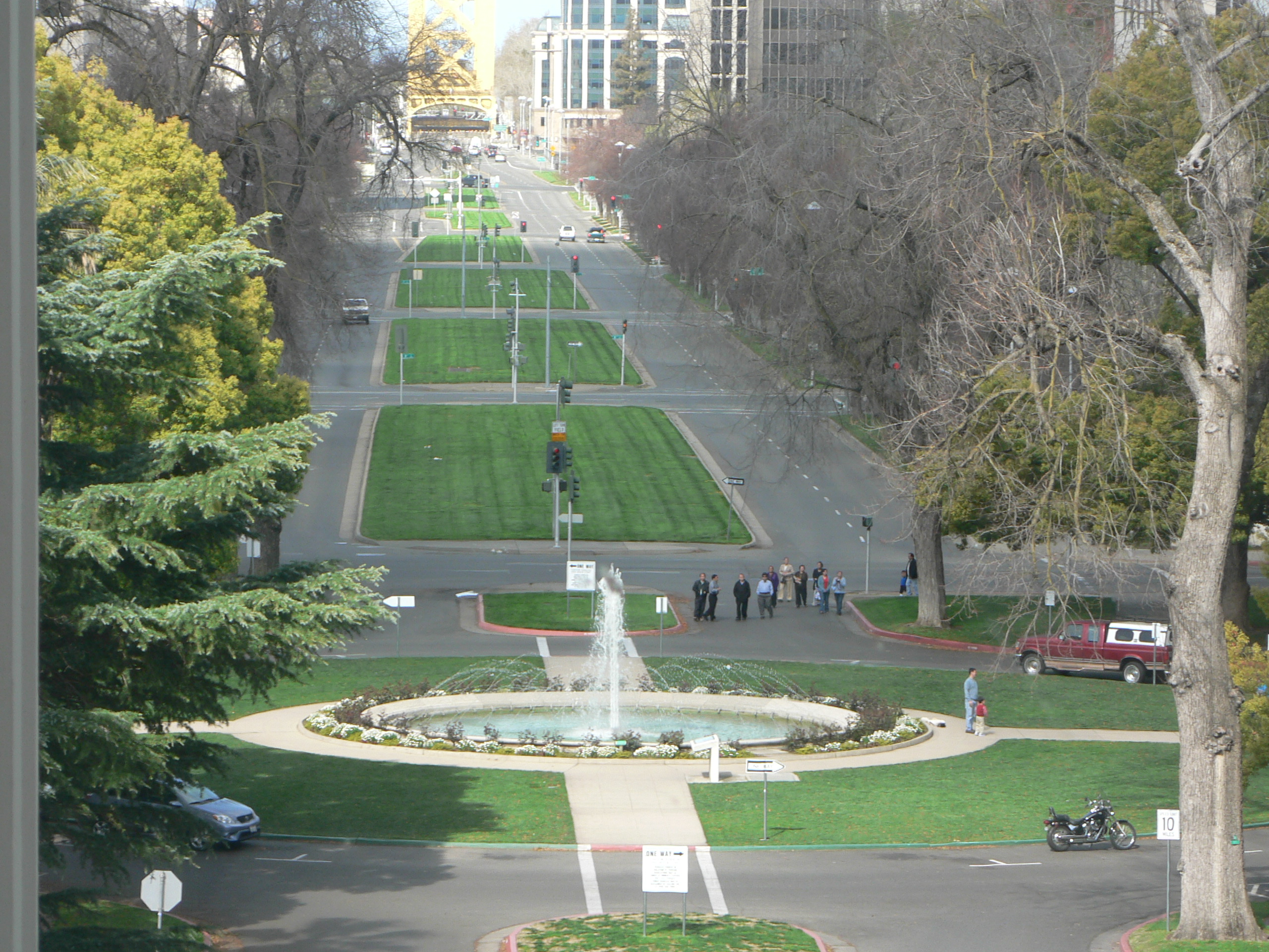 The Capitol Mall in Sacramento, California, seen from the Capitol